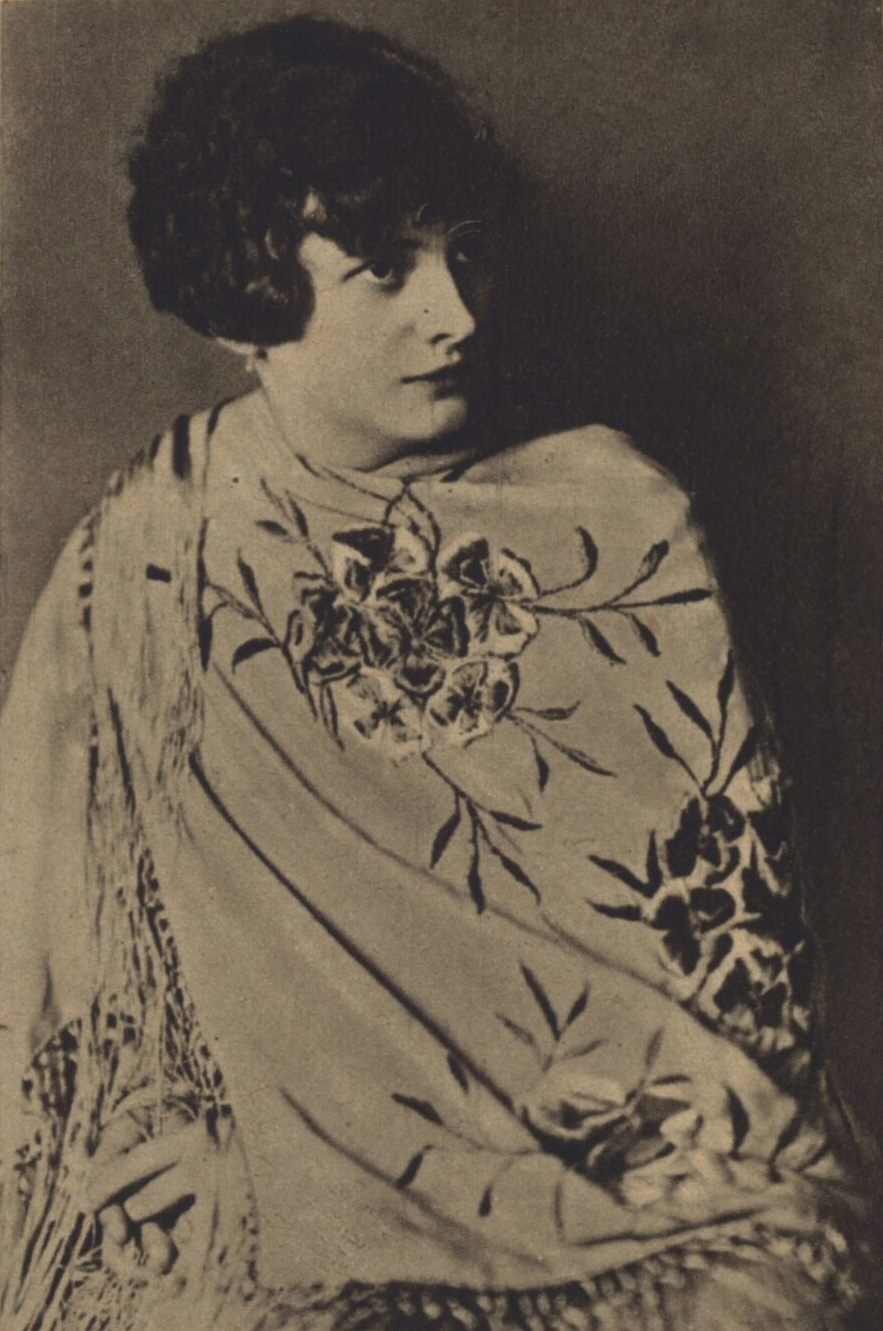 Věra Řepková, Czech pianist, 1928